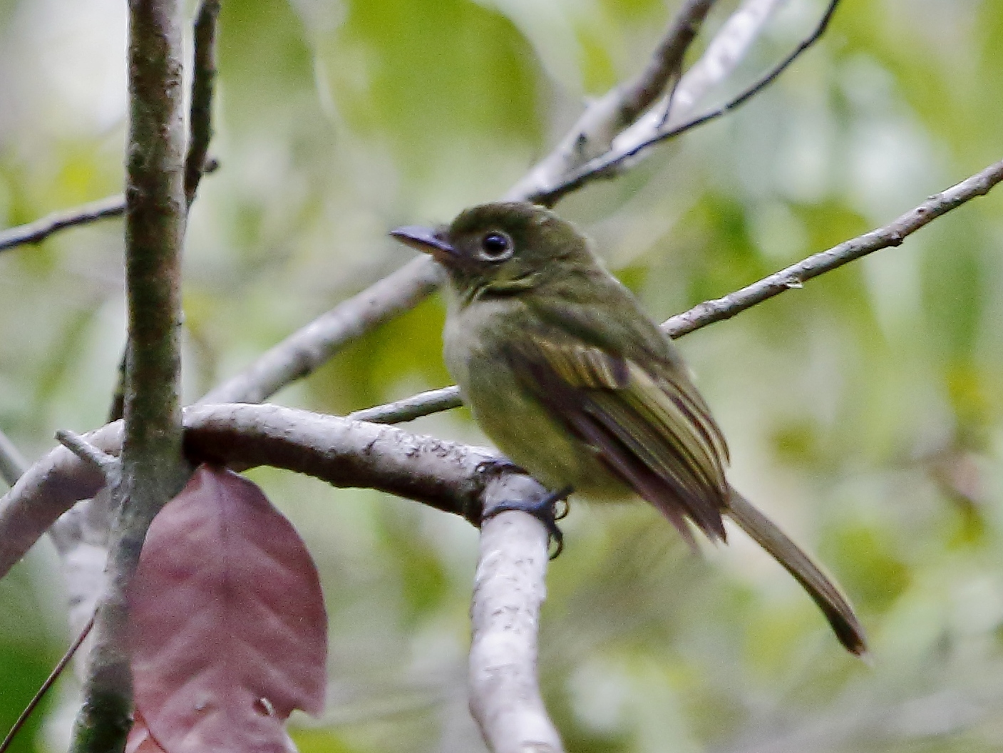 Olivaceous flatbill; Linhares, Espírito Santo, Brazil